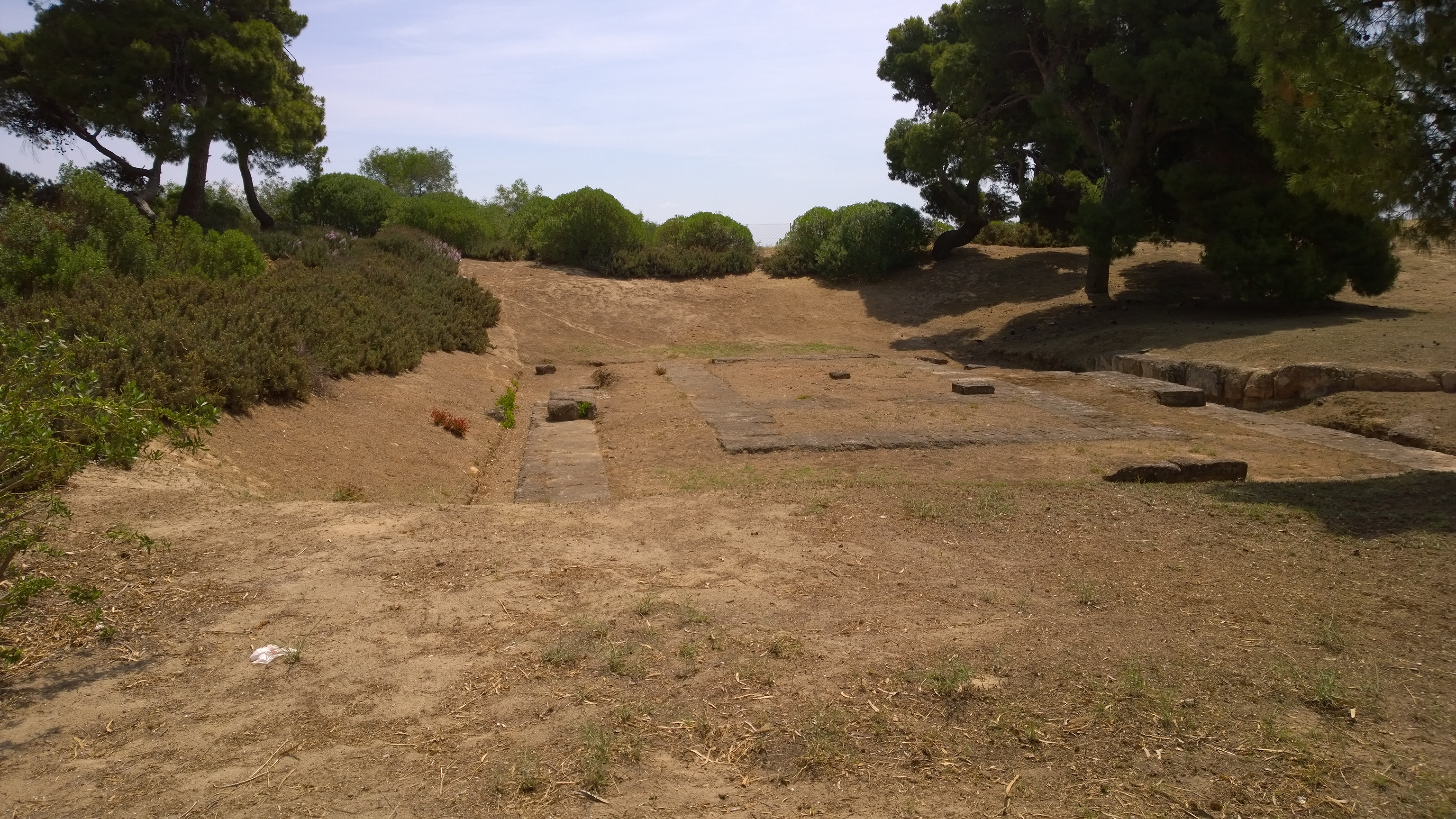 Sanctuary of the Deme Artemida